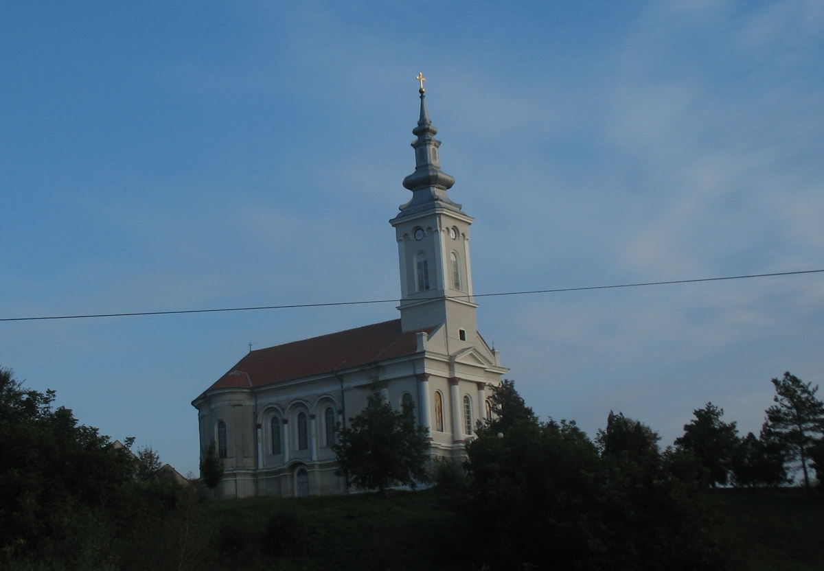 Church in Dolovo,Serbia.